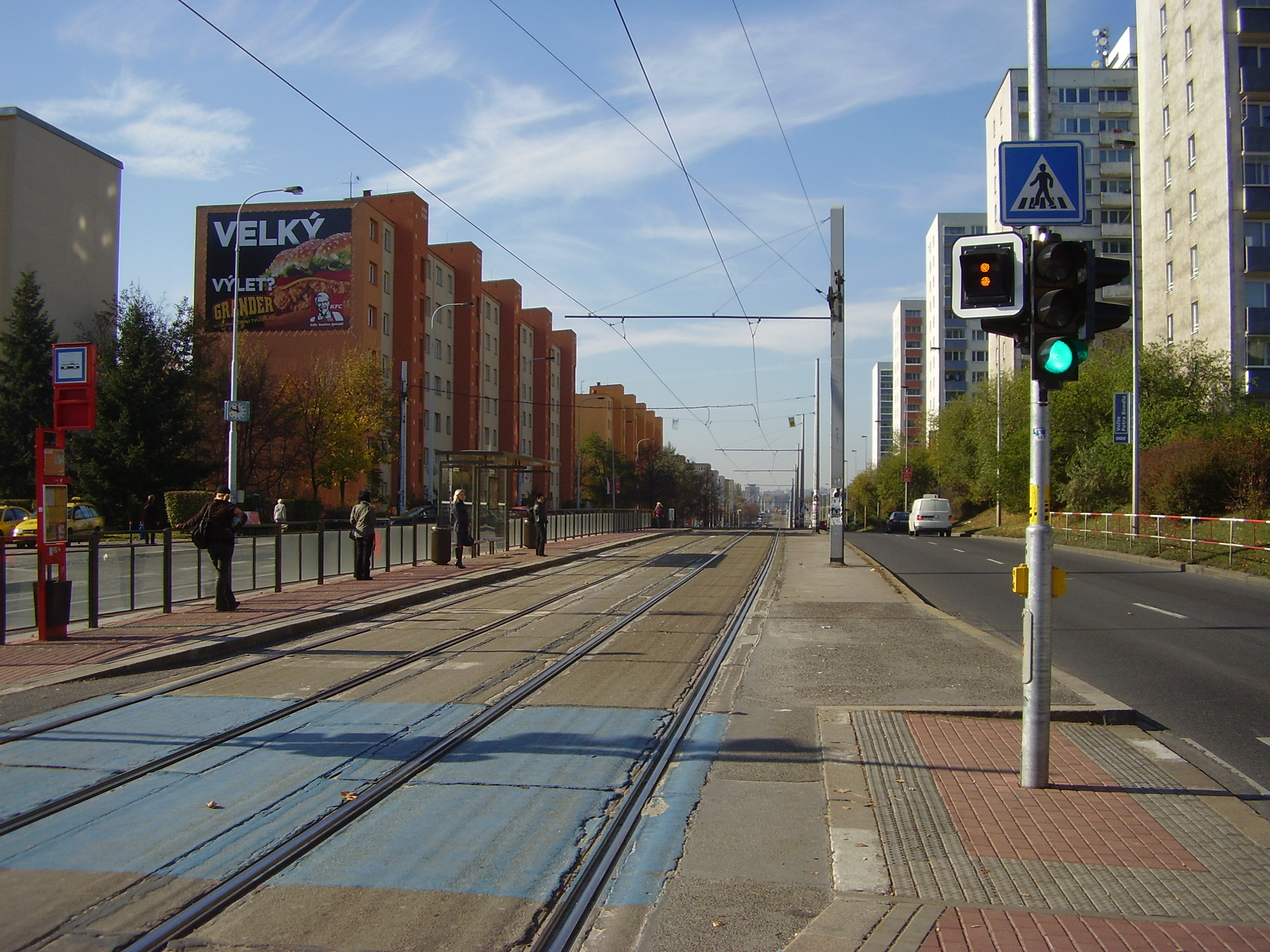 Evropská towards airport near sídliště Červený vrch, Vokovice, Prague 6